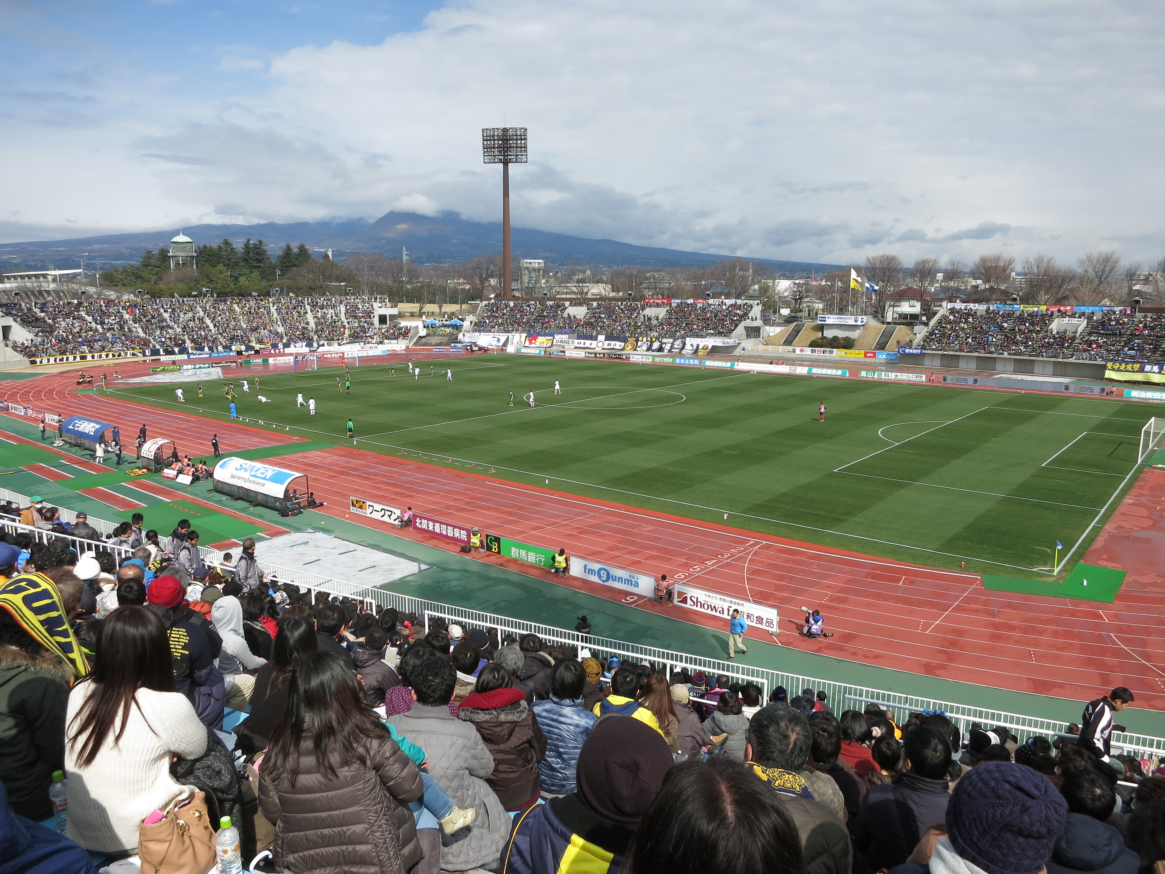 Shikishima athletics stadium